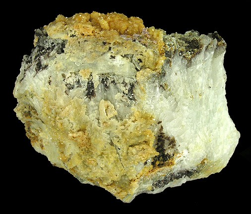 Kosnarite Locality: Jenipapo district, Itinga, Jequitinhonha valley, Minas Gerais, Southeast Region, Brazil (Locality at ) Size: 5.4 x 5.2 x 3.3 cm. Kosnarite is Potassium, Zirconium Phosphate and was named after Richard Kosnar in 1994. The type locality for this material is Mt. Mica, Maine, and the crystals at that find barely approached 1 mm in diameter. A few years ago, Luiz Menezes made a discovery of what are the finest crystallized Kosnarite specimens in existence with crystals up to 4 mm (which is a quantum leap in size) !! This is a specimen from that find featuring sharp, lustrous, yellow color, pseudo-cubic (trigonal) crystals on white Albite matrix. If you look closely, you’ll see a small truncated face on each "cube" of Kosnarite on this specimen, which is actually a pinacoid or a "c" face as these crystals are trigonal and not isometric as they might appear. The quality on this specimen is as good as Kosnarite gets from any locality in the world.